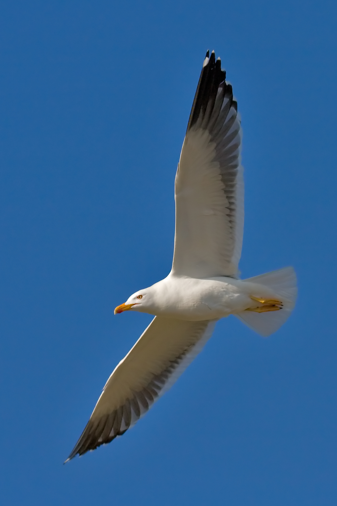 Lesser Black-backed Gull